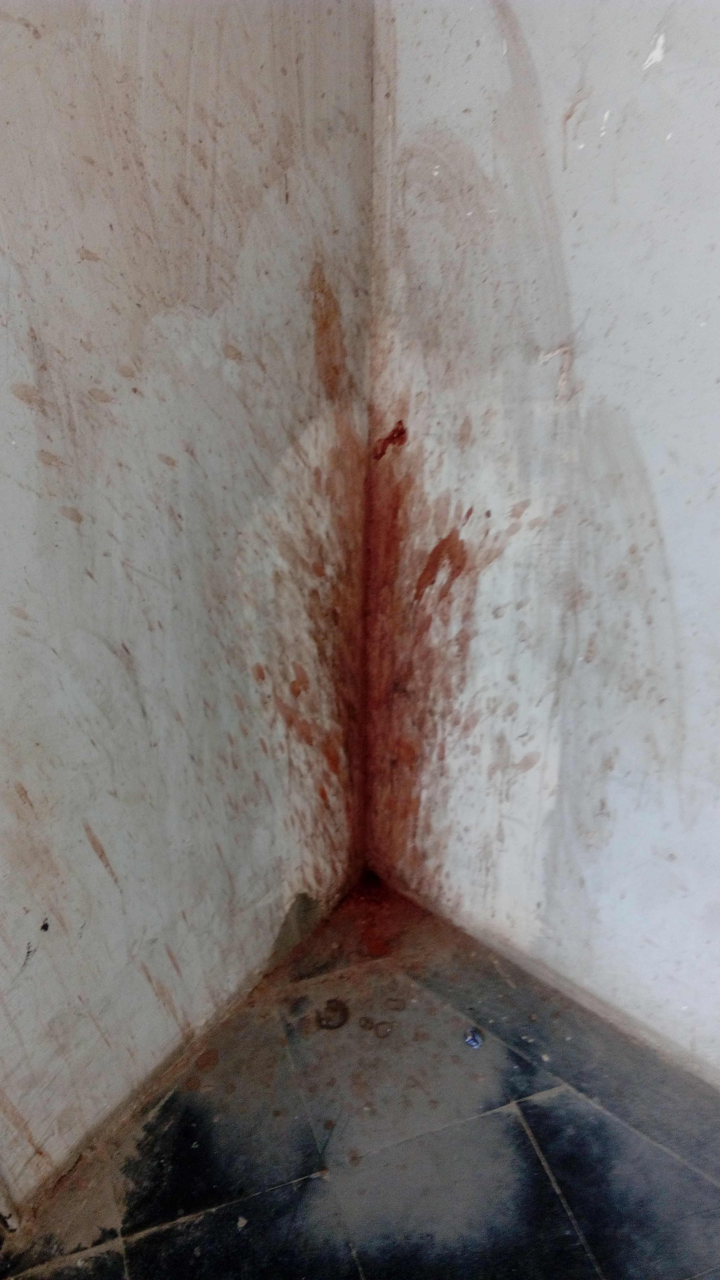 Stains on walls due to spitting of Gutkha/Panmasala. In India.